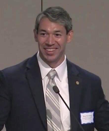 Ron Nirenberg, member of San Antonio City Council District 8 and candidate for Mayor of San Antonio, in July 2015.